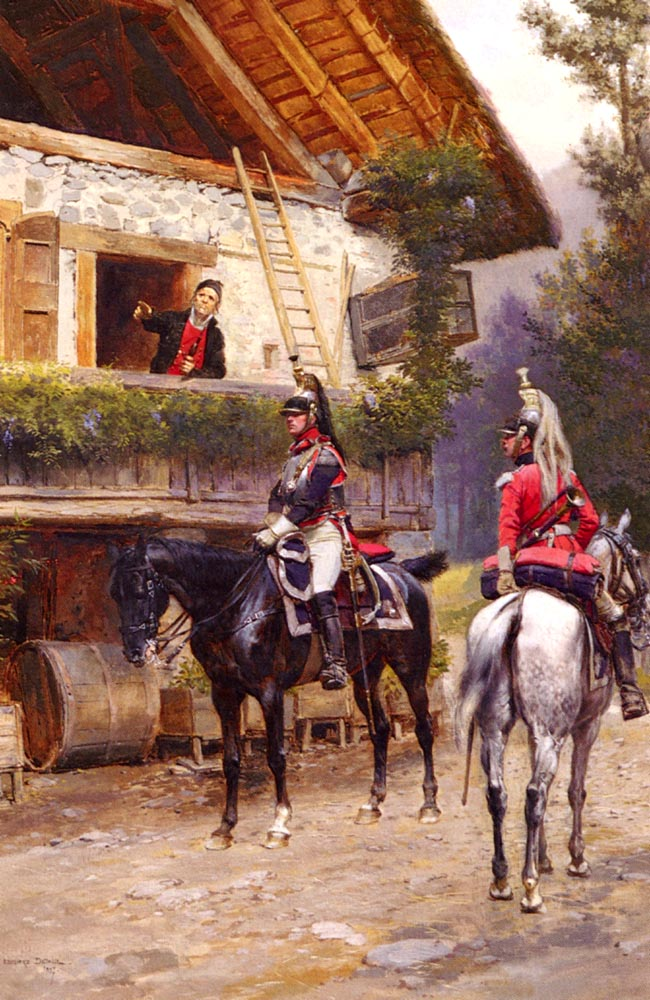 Officer and bugler from a Cuirassier Regiment in front of a Country House.